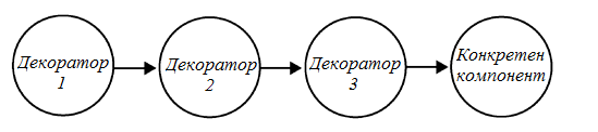 Basic decorator pattern